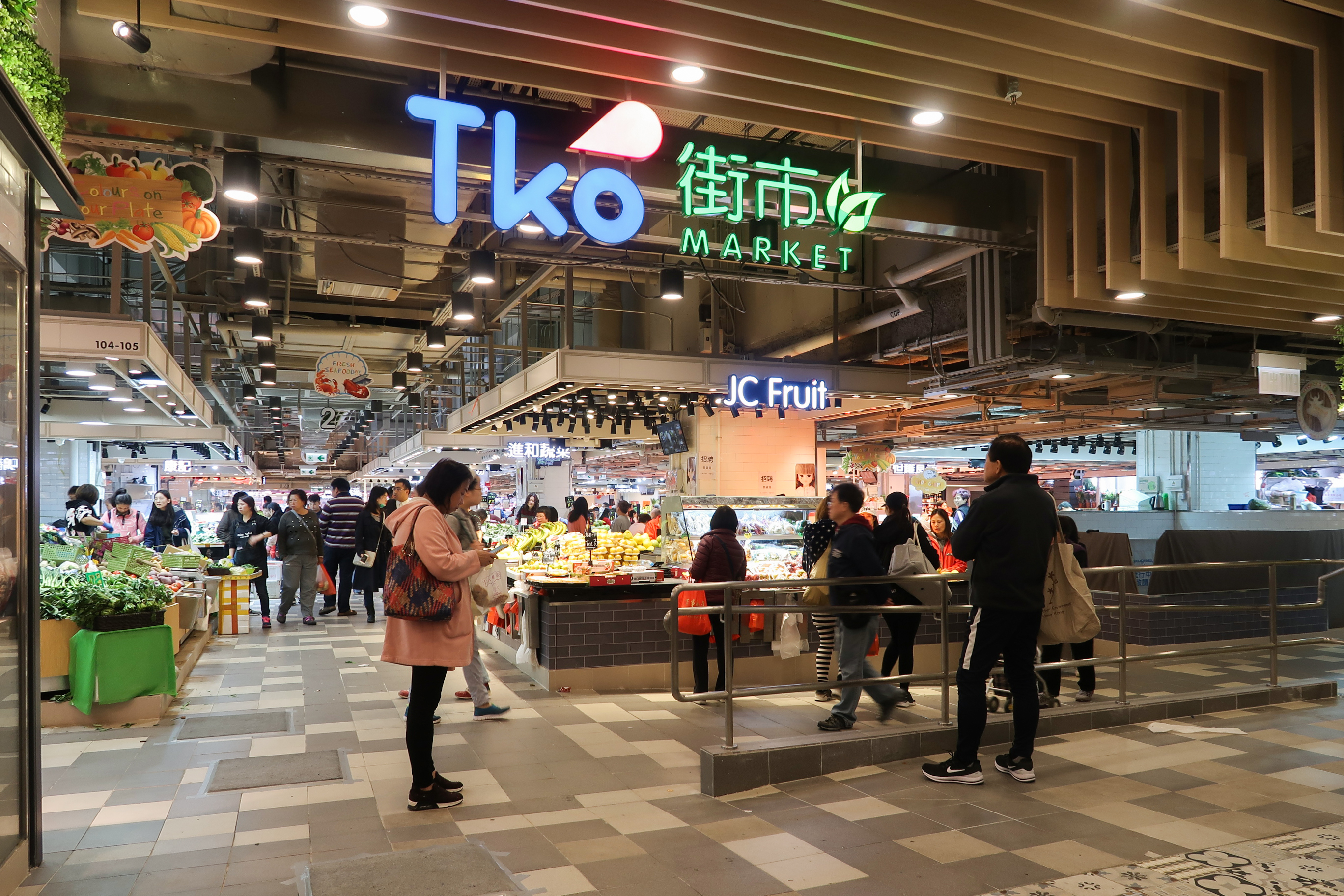 TKO Market Entrance